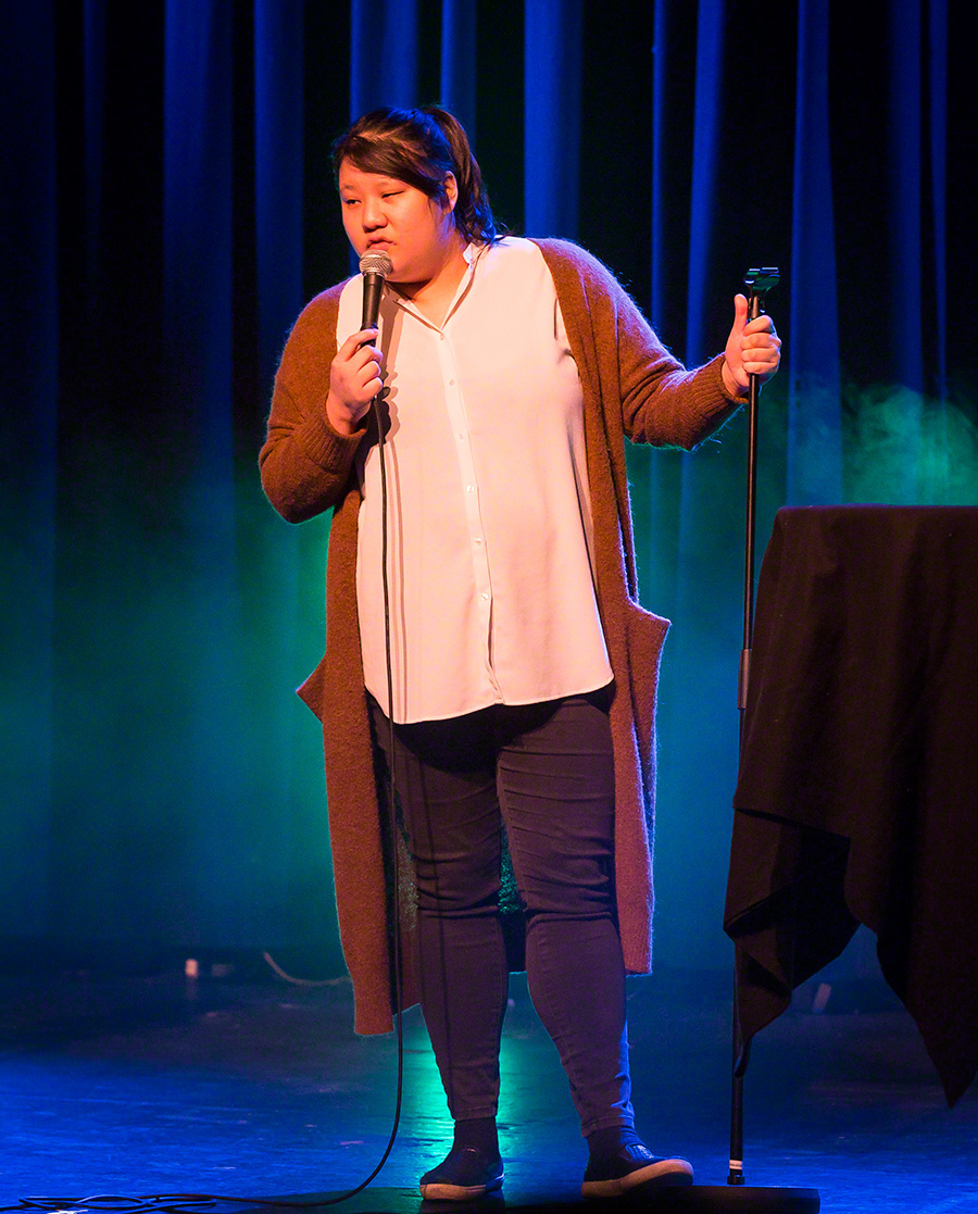 Evelyn Mok performing at the Crap Comedy Festival in January 2016. The festival takes place at Parkteatret in Oslo.